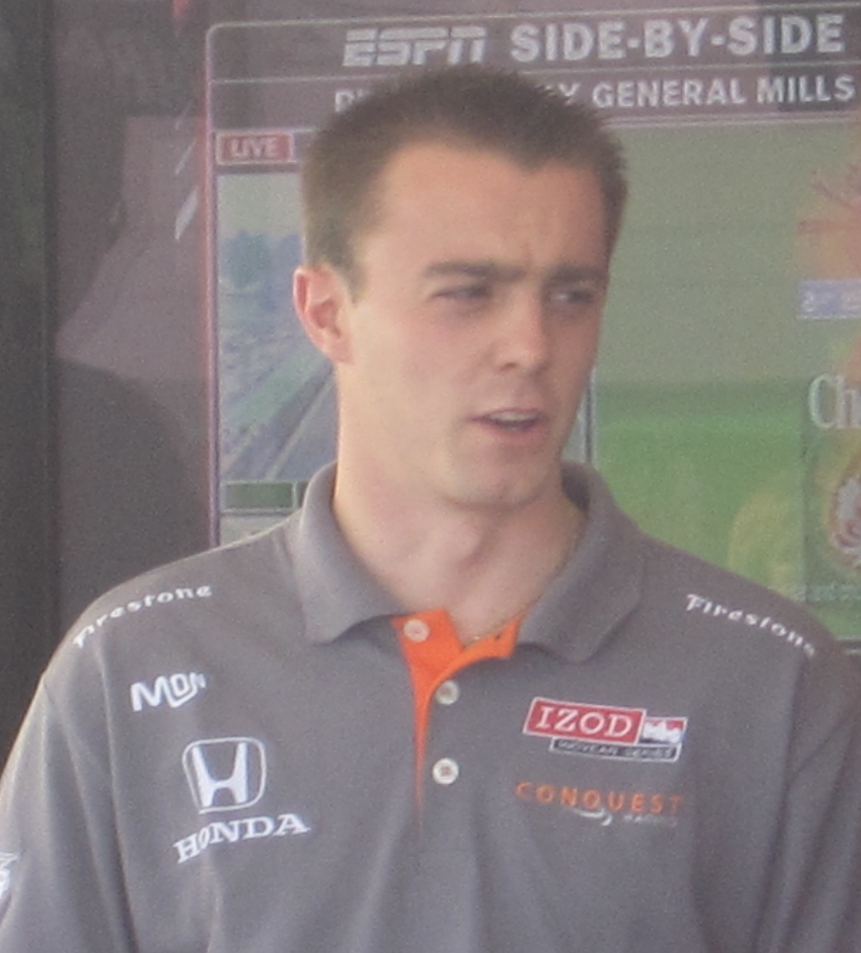 Conquest Racing's Bertrand Baguette at the 2010 Indianapolis 500 opening weekend autograph session in Indianapolis, Indiana on Friday, May 14, 2010.